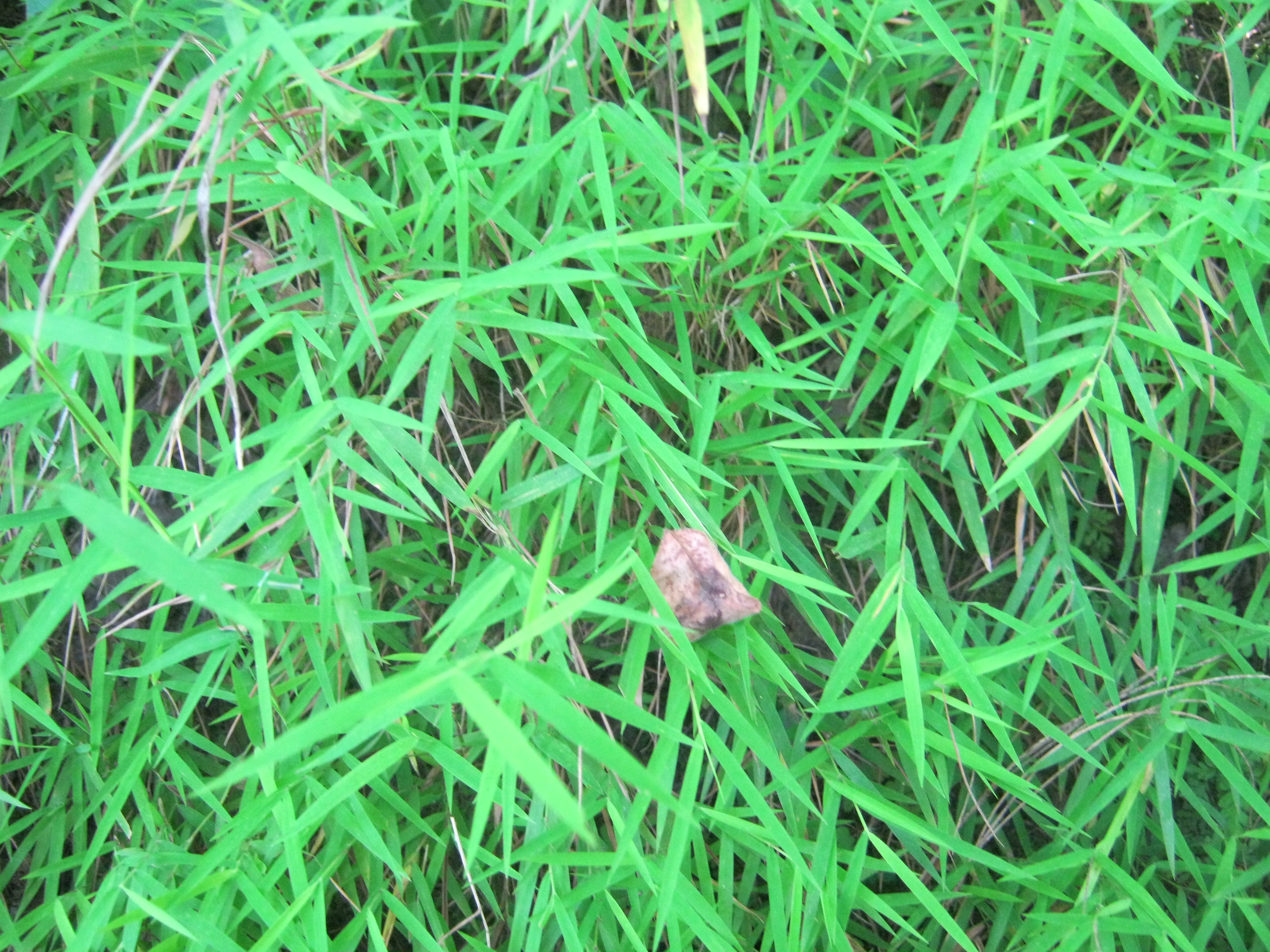 Pogonatherum paniceum found in Panchkhal Valley in Nepal